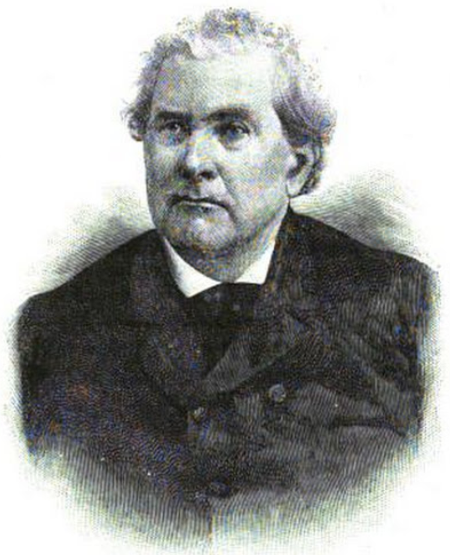 Drawing of Rev. Charles H. Stonestreet, Jesuit priest and president of Georgetown University